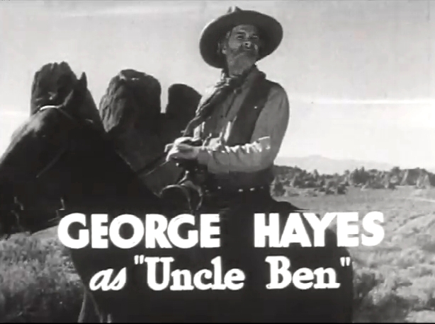 Snapshot with George "Gabby" Hayes from Hop-a-long Cassidy (1935) trailer.